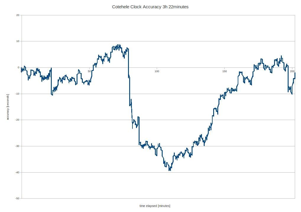 Graph showing the accuracy of the Cotehele Clock during 3 hours 20 minutes.